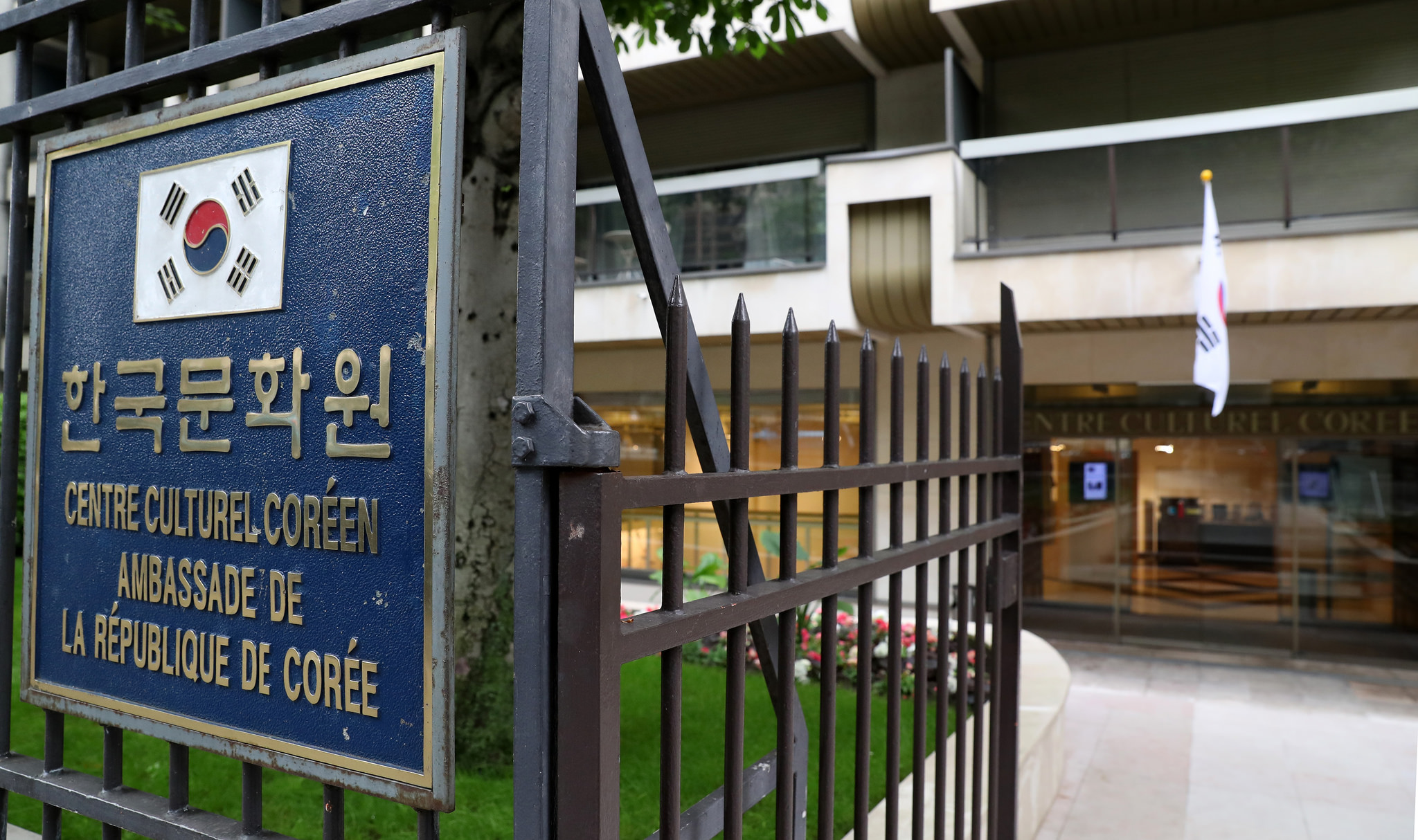 President Park Geun-hye’s Official State Visit to France Centre Culturel Coréen June 1, 2016 Paris, France Ministry of Culture, Sports and Tourism Korean Culture and Information Service ( Official Photographer : Jeon Han This official Republic of Korea photograph is being made available only for publication by news organizations and/or for personal printing by the subject(s) of the photograph. The photograph may not be manipulated in any way. Also, it may not be used in any type of commercial, advertisement, product or promotion that in any way suggests approval or endorsement from the government of the Republic of Korea.